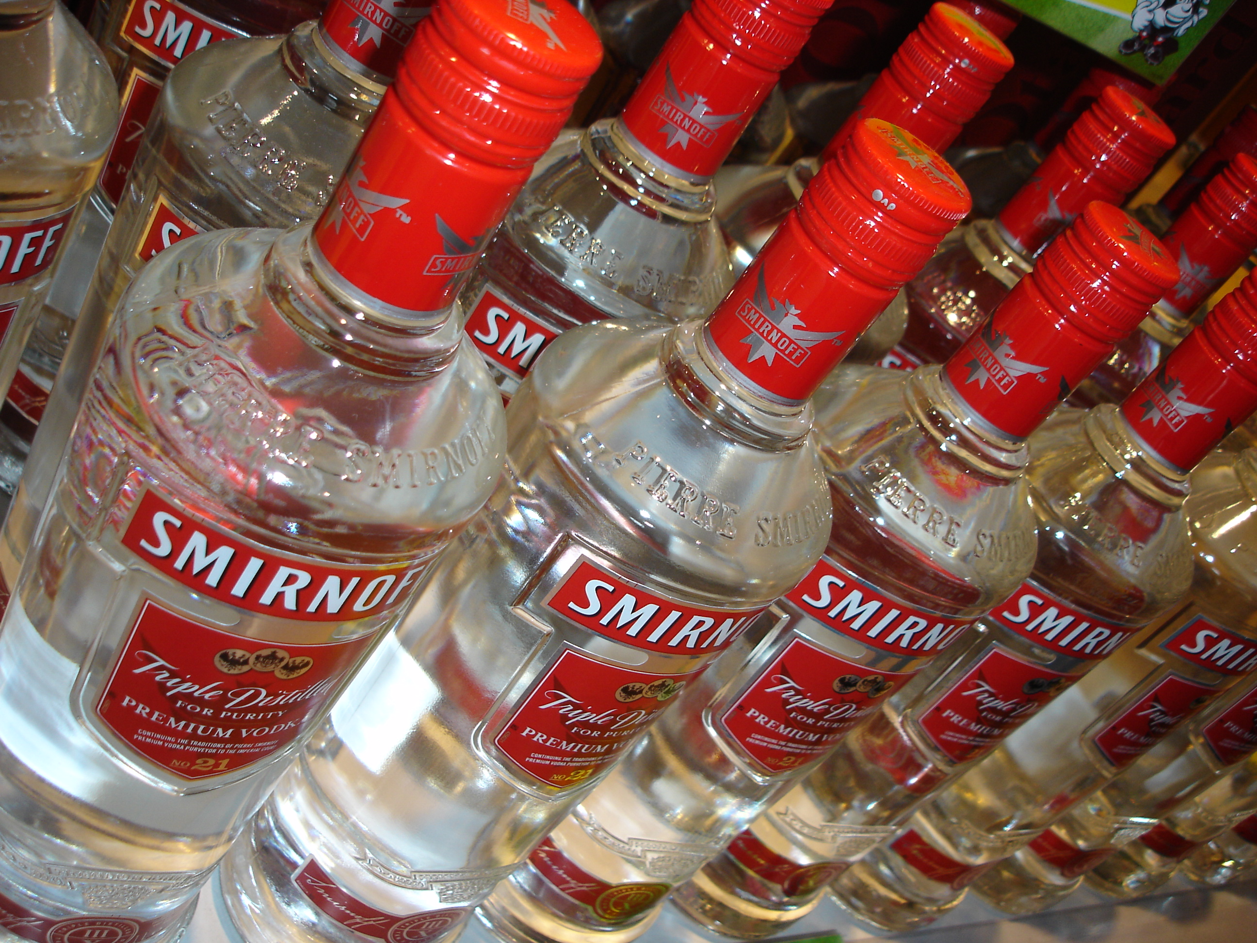 Bottles of Smirnoff vodka in an airport duty free shop.